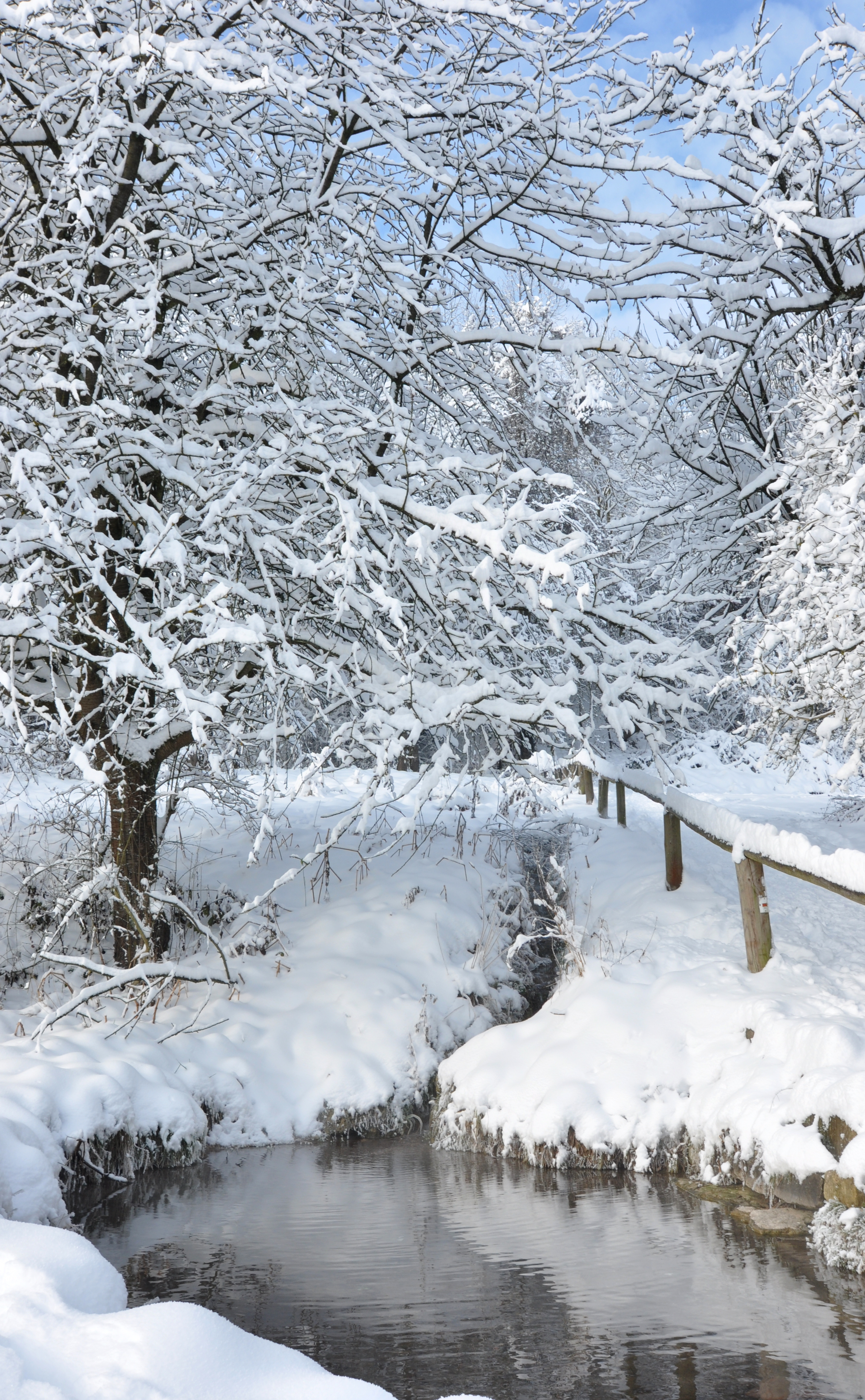 Winter in the Wiesental Altneckar